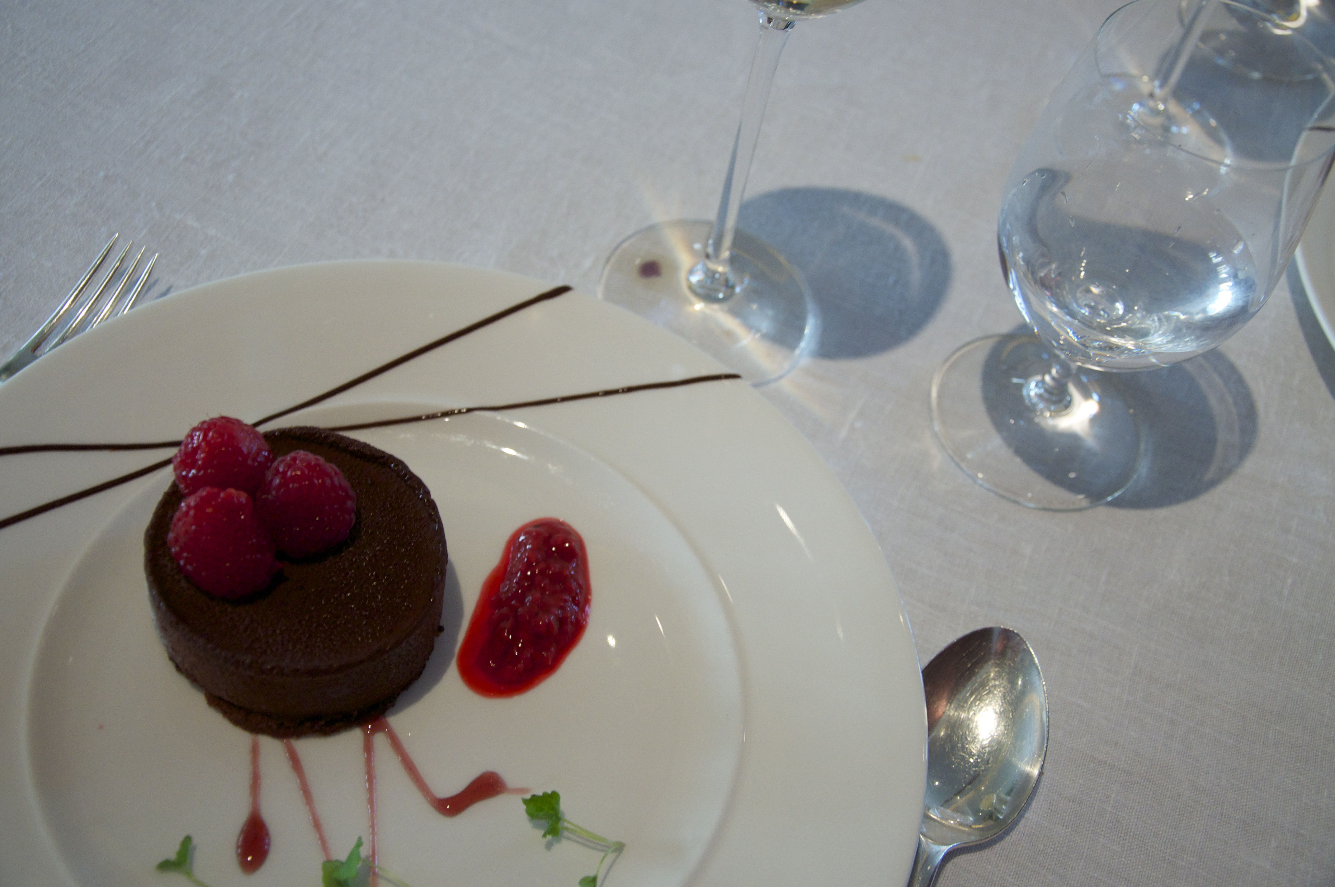 A raspberry parfait at Gordon Ramsay's Petrus in London, photographed in August 2011.